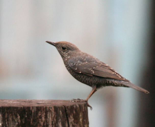 Blue Rock Thrush Monticola solitarius at Jayanti in Buxa Tiger Reserve in Jalpaiguri district of West Bengal, India.